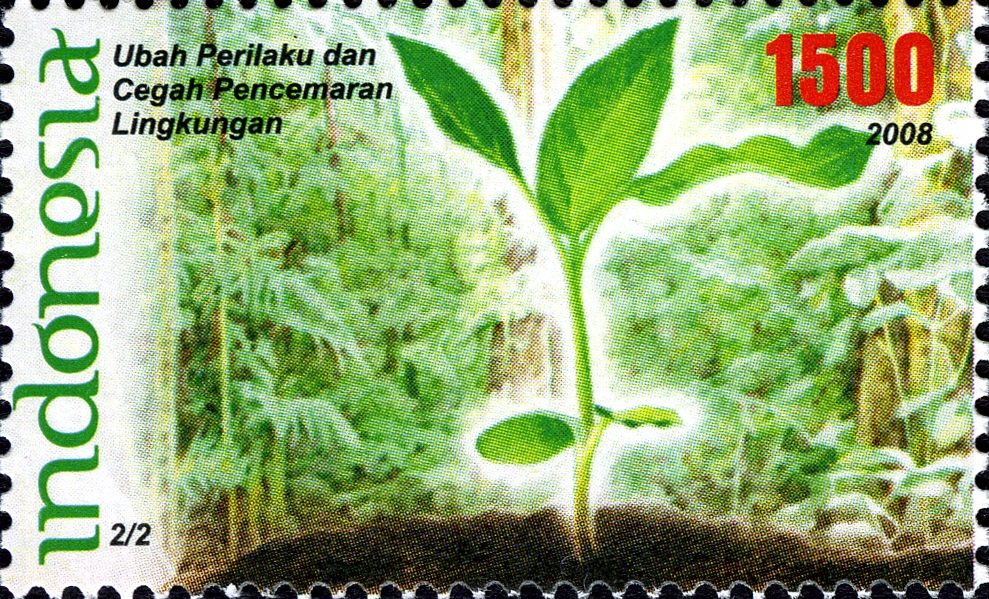 Stamps of Indonesia